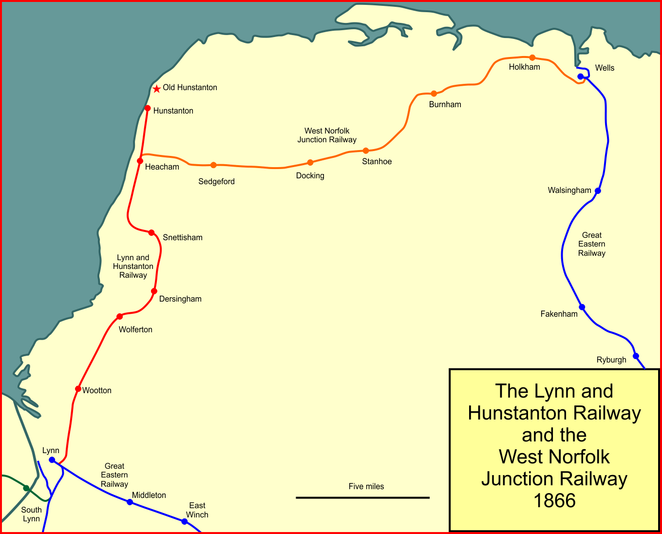 System map of the Lynn and Hunstanton Railway and the West Norfolk Junction Railway, England, in 1866